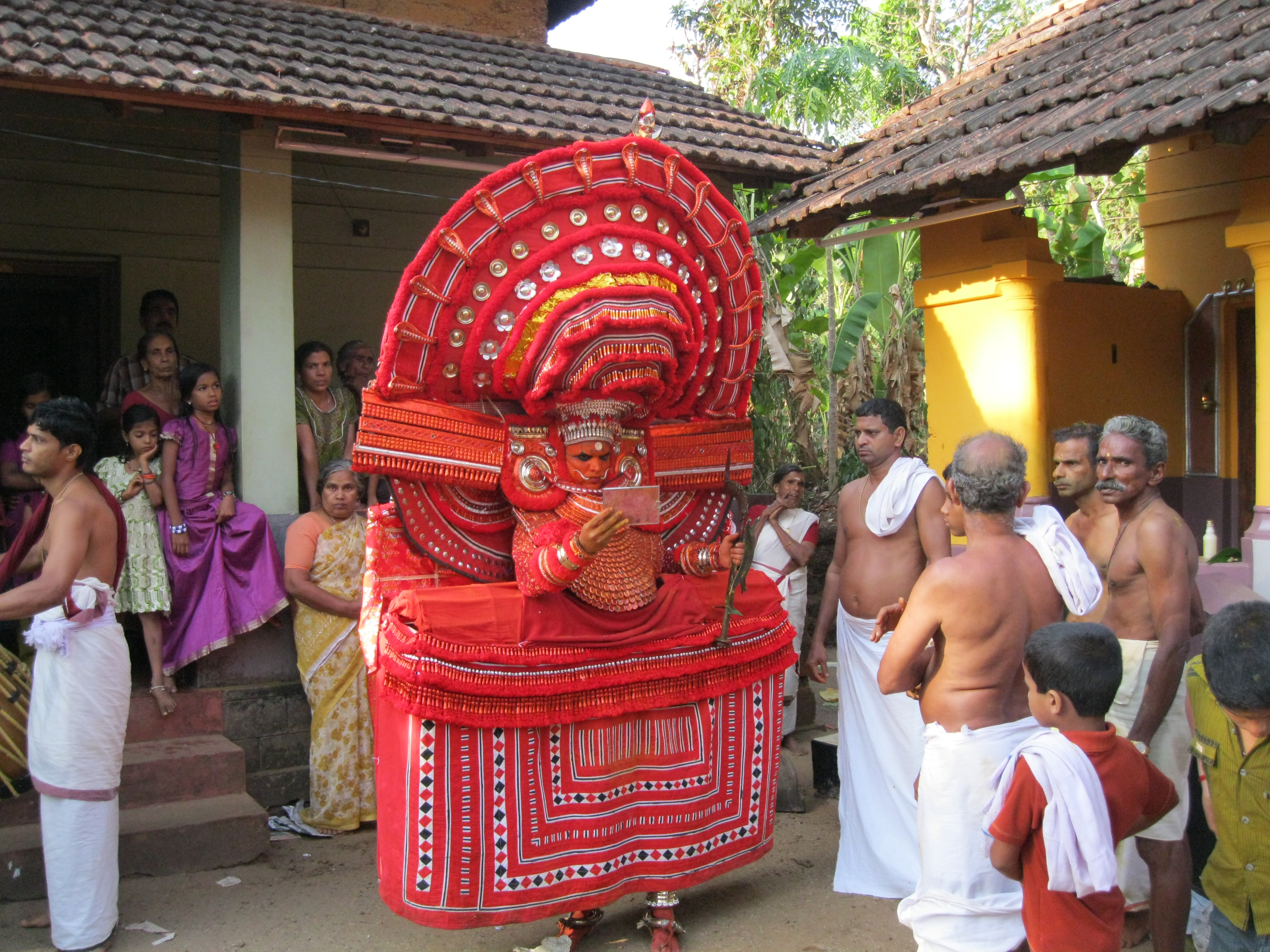 manjal bhagavathi theyyam of blathur, Kerala, India